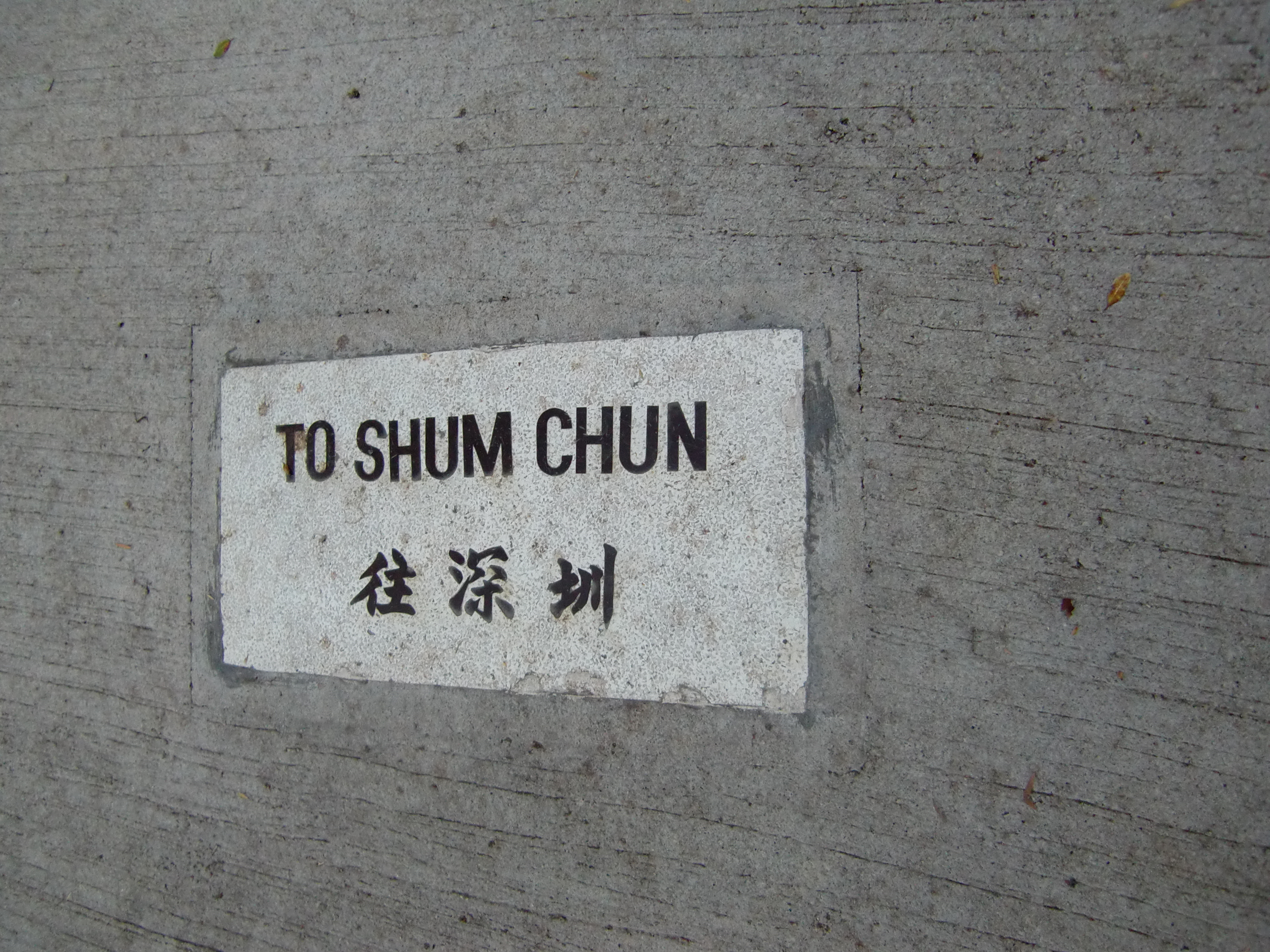 Hong Kong Railway Museum, "To Shum Chun (Shenzhen)" sign attached to the floor